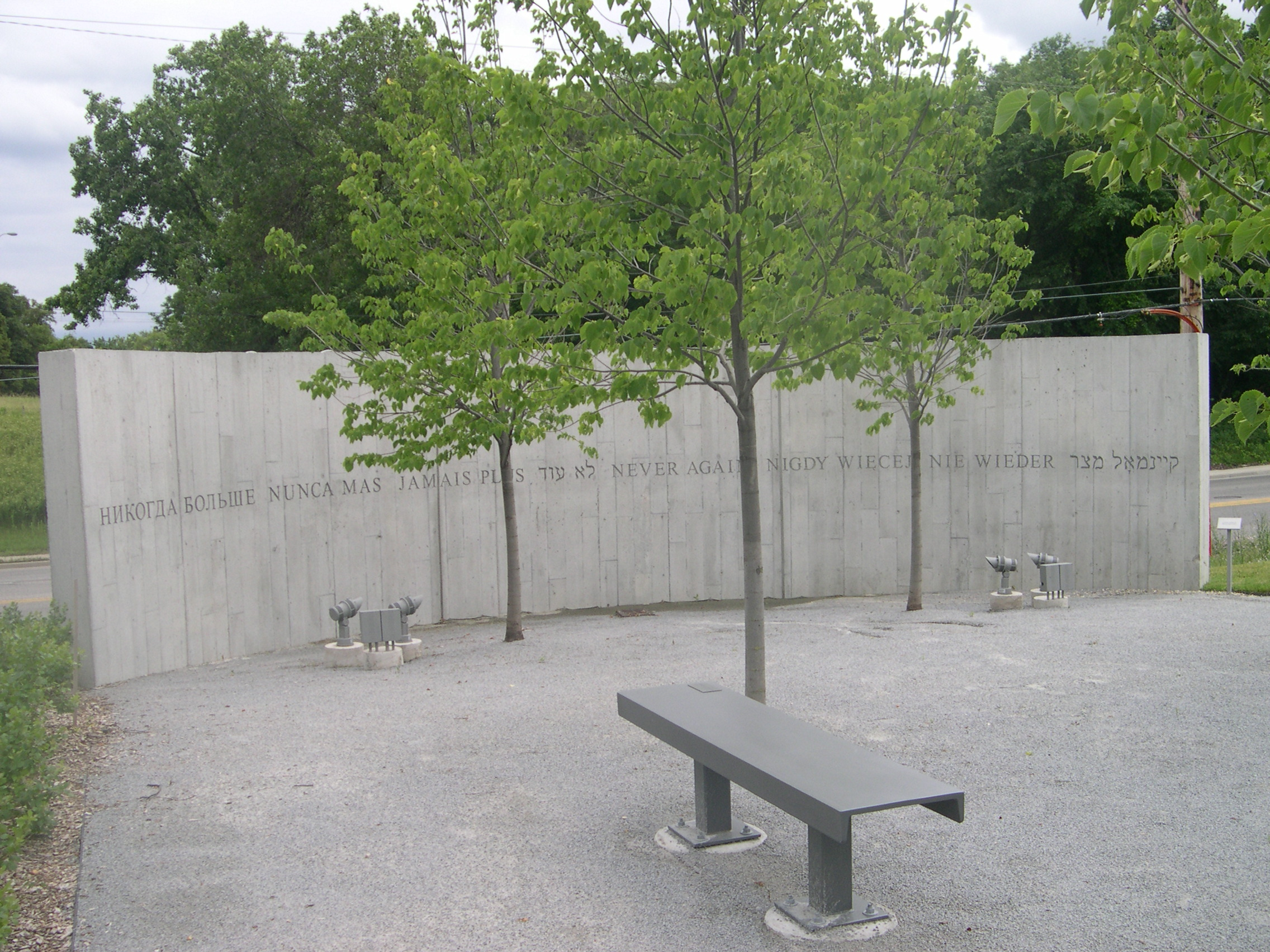 A monument at the yard of the Illinois Holocaust Museum and Education Center, Skokie. Architect: Stanley Tigerman.